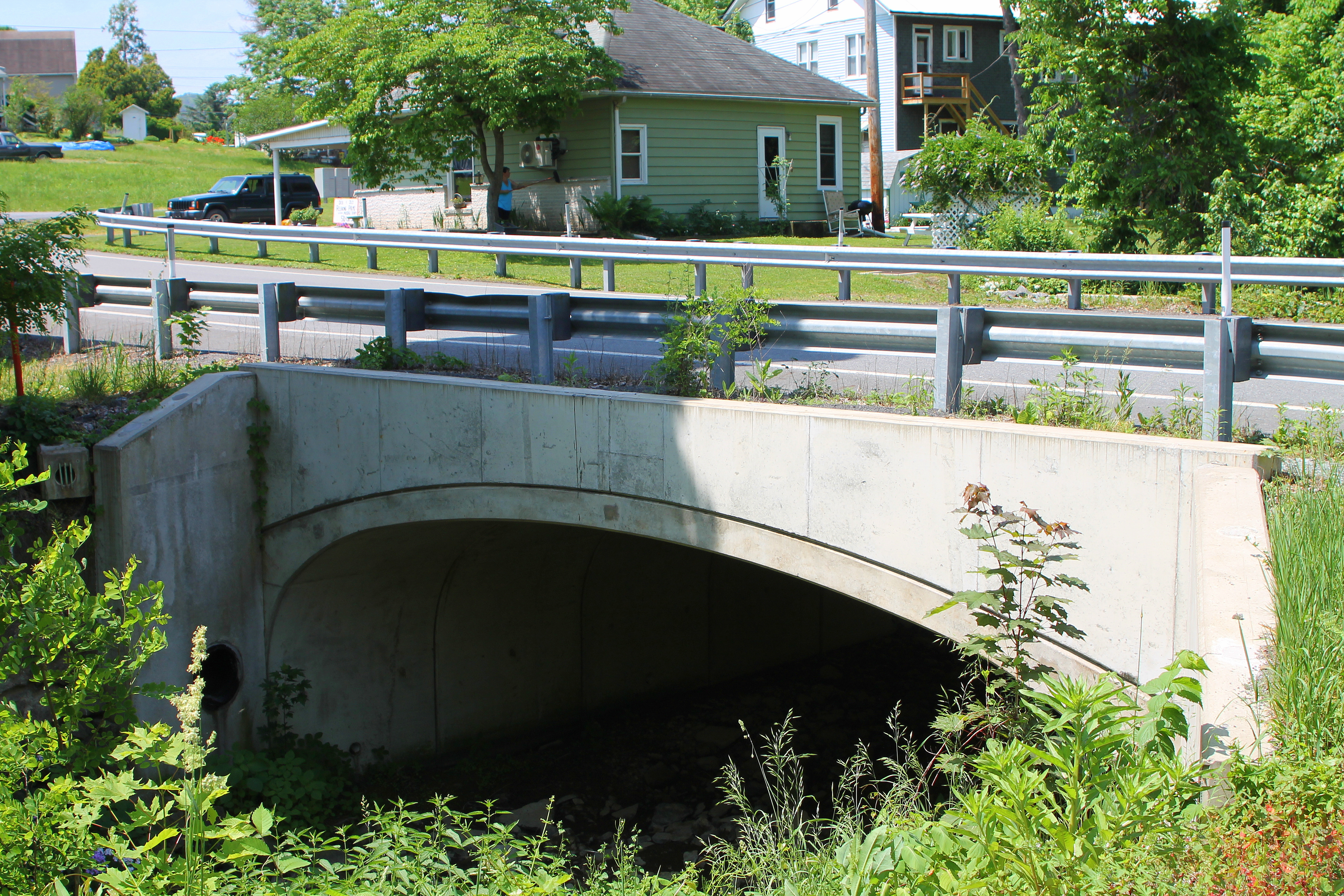 Concrete culvert bridge carrying Pennsylvania Route 147 over Dalmatia Creek, a tributary of the Susquehanna River in Northumberland County, Pennsylvania.